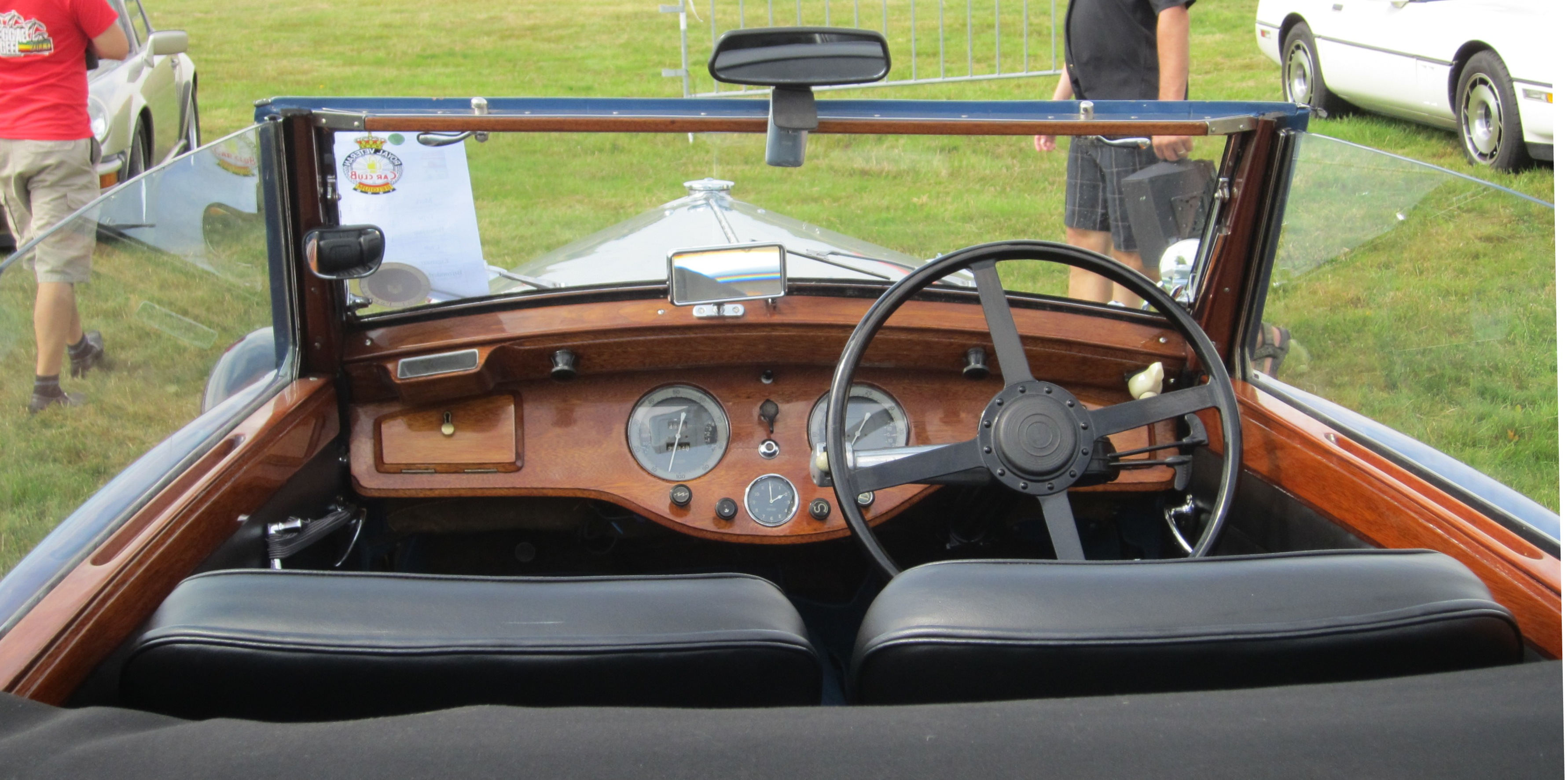 Delage D6/70 (1937) the view out